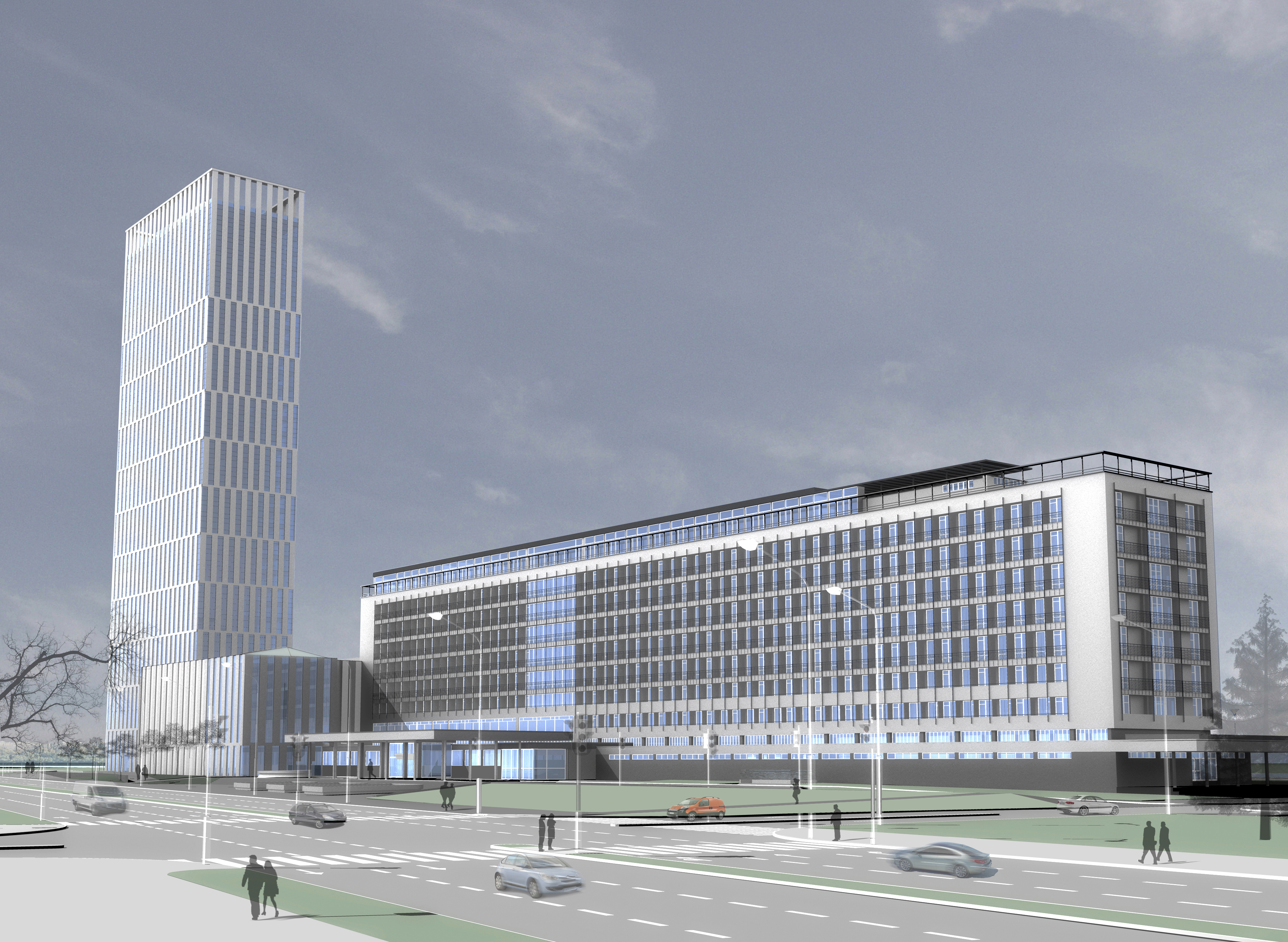 Hotel Jugoslavija, Belgrade, Nikola Tesla Boulevard view